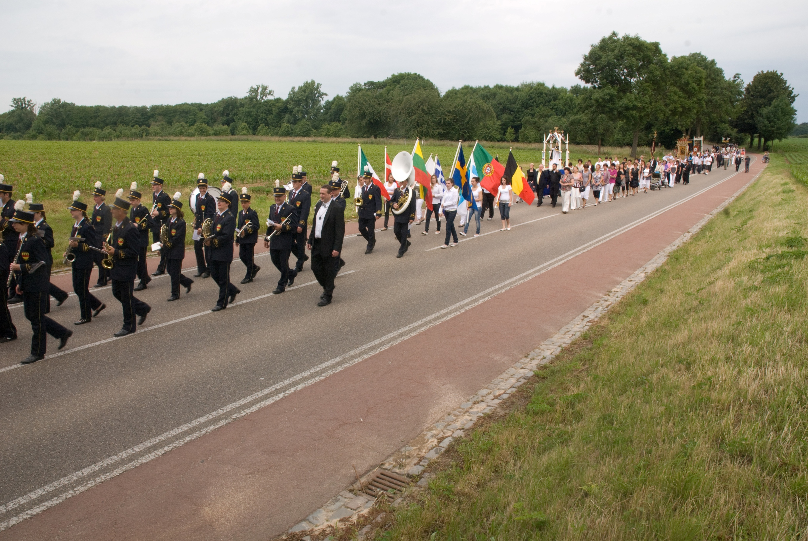 Eckelrade procesion